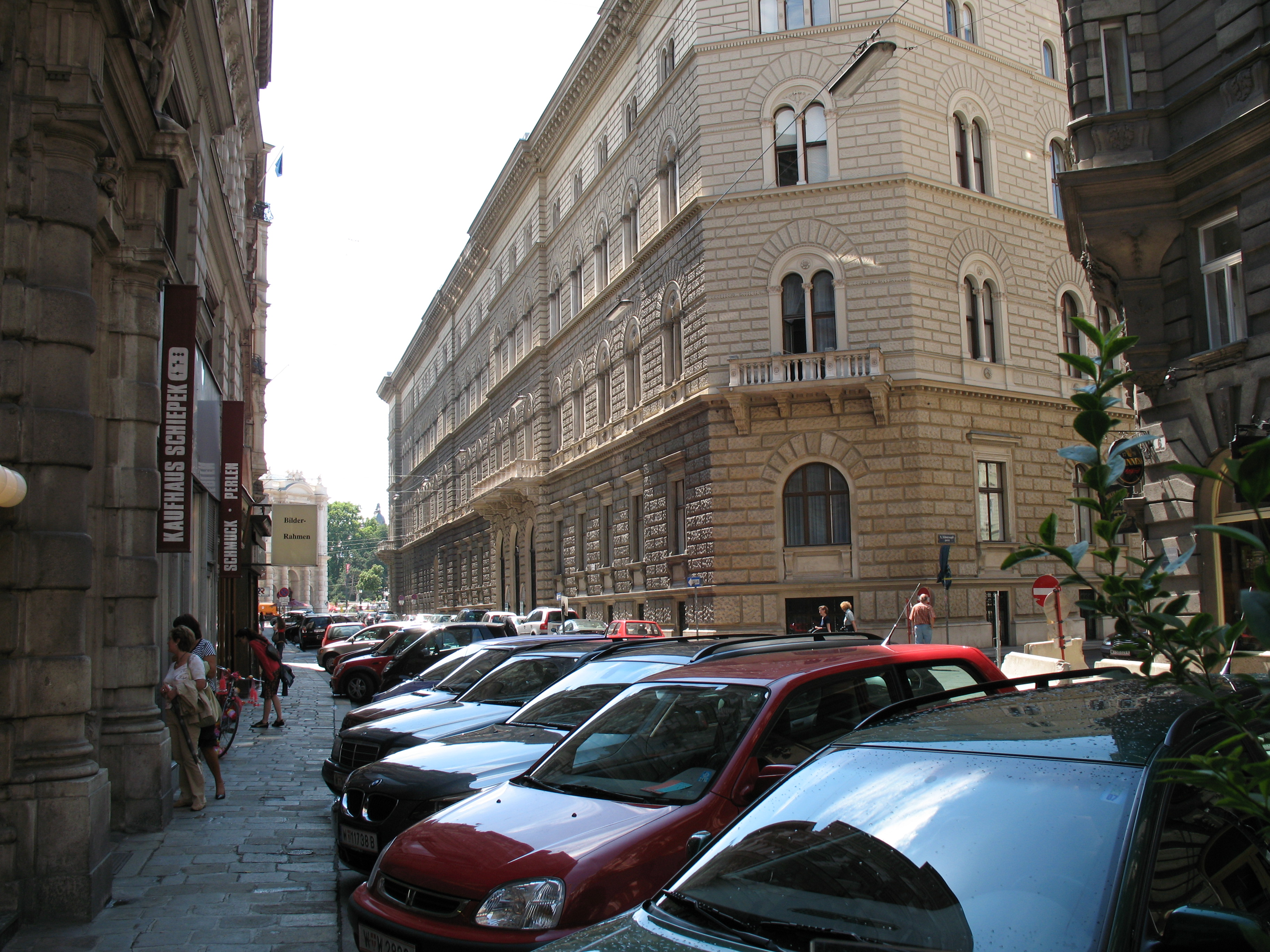 Teinfalt Street, Vienna, Austria